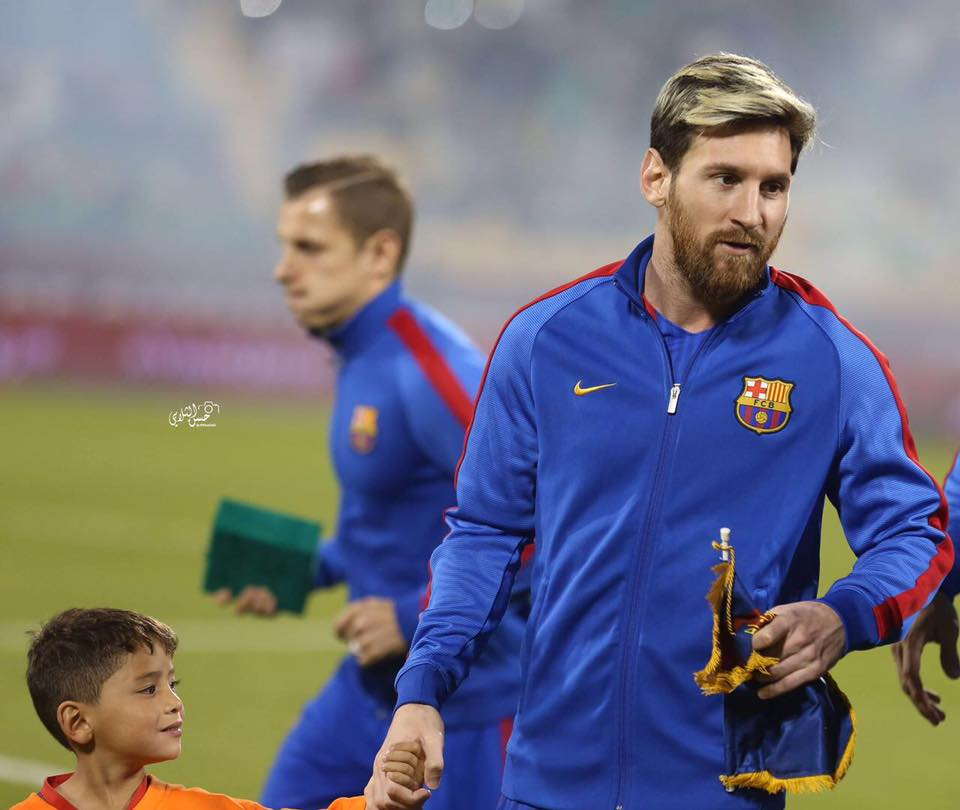 Al-Ahli FC v FC Barcelona December 16, 2016